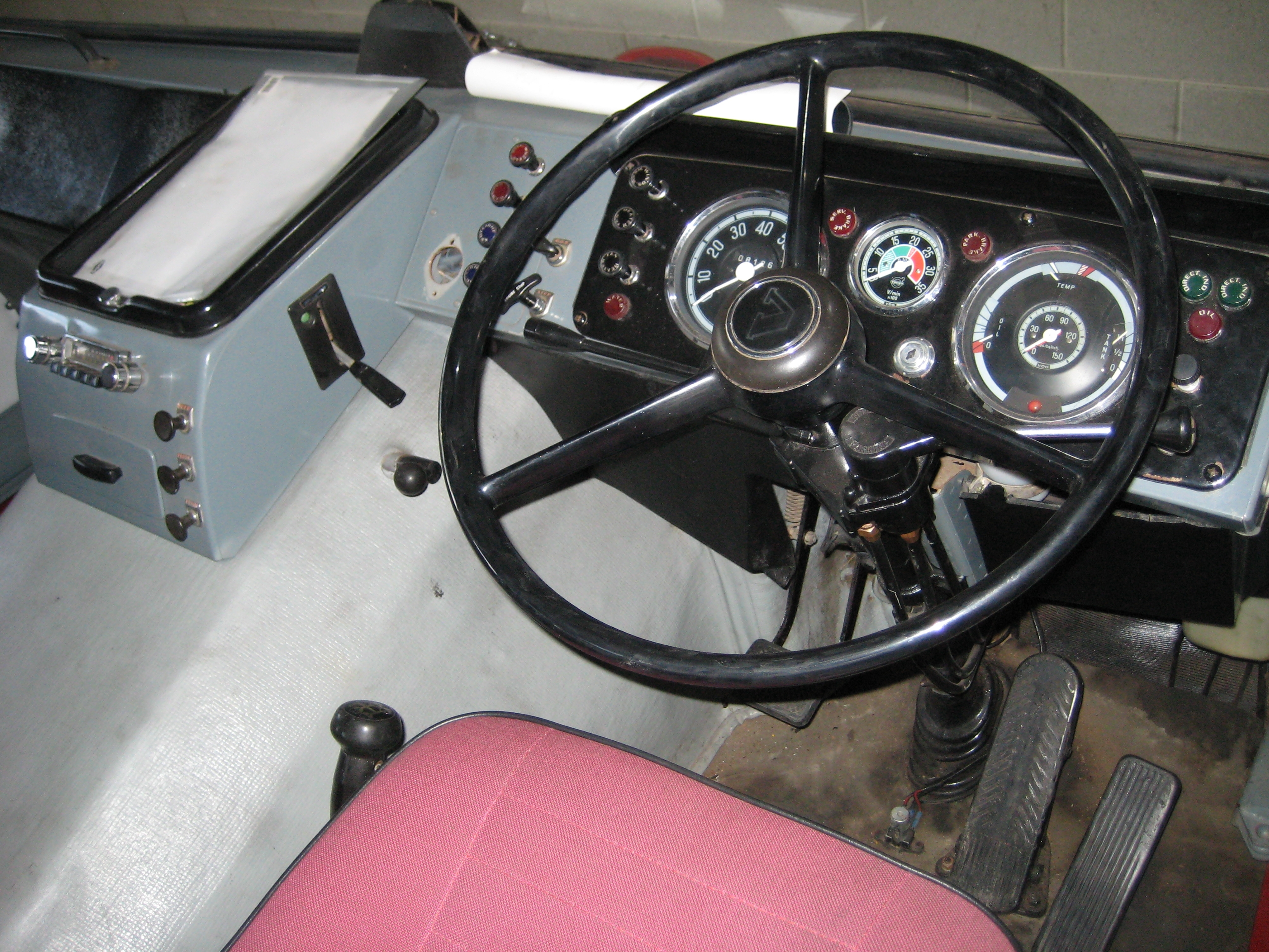 Interior of Volvo G88 truck (left hand drive)